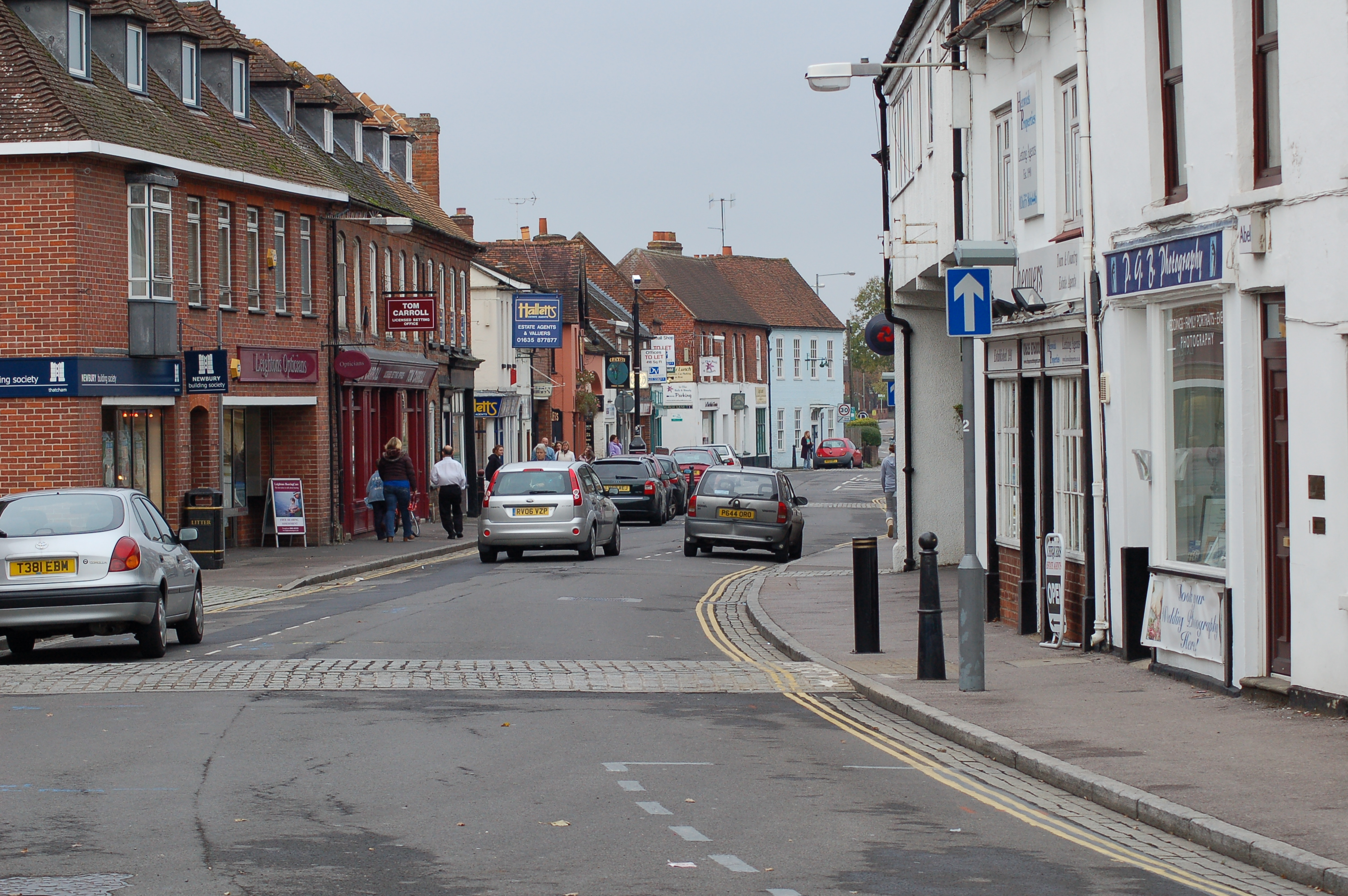 High Street, Thatcham, Berkshire, England.